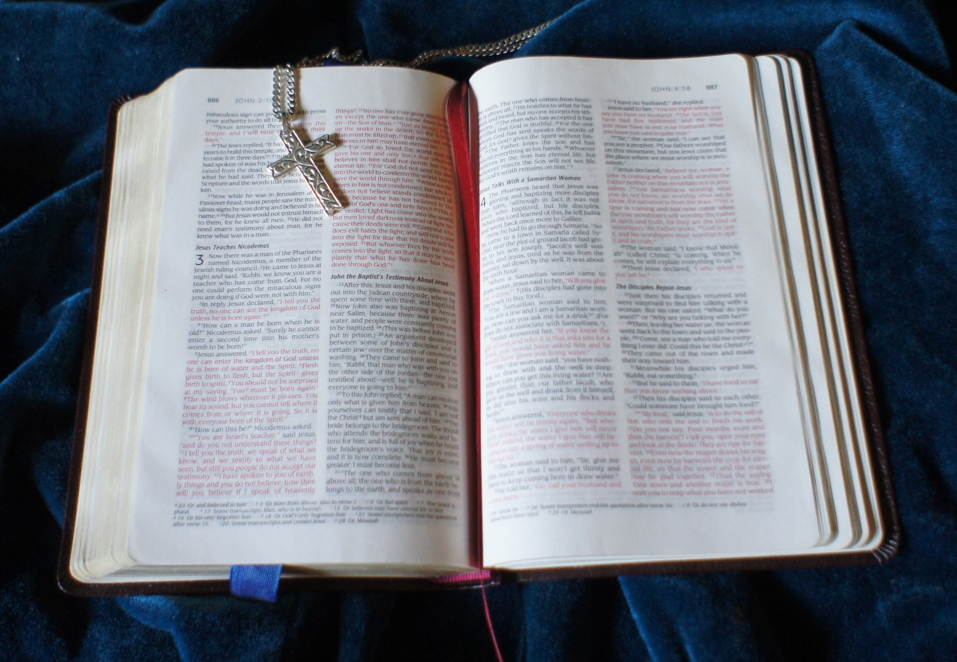 Photograph of an open Bible with focus on a verse from the Gospel of John, chapter 3, verse 16. "For God so loved the World that he gave his one and only son that whosoever believes on him should not perish but have eternal life."